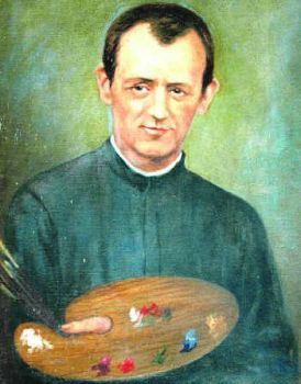 Self-portrait of Antonio Moscheni (1854-1905), Italian Jesuit and late baroque painter, mostly famous for decorating the church of the St Aloysius College in Mangalore, India.